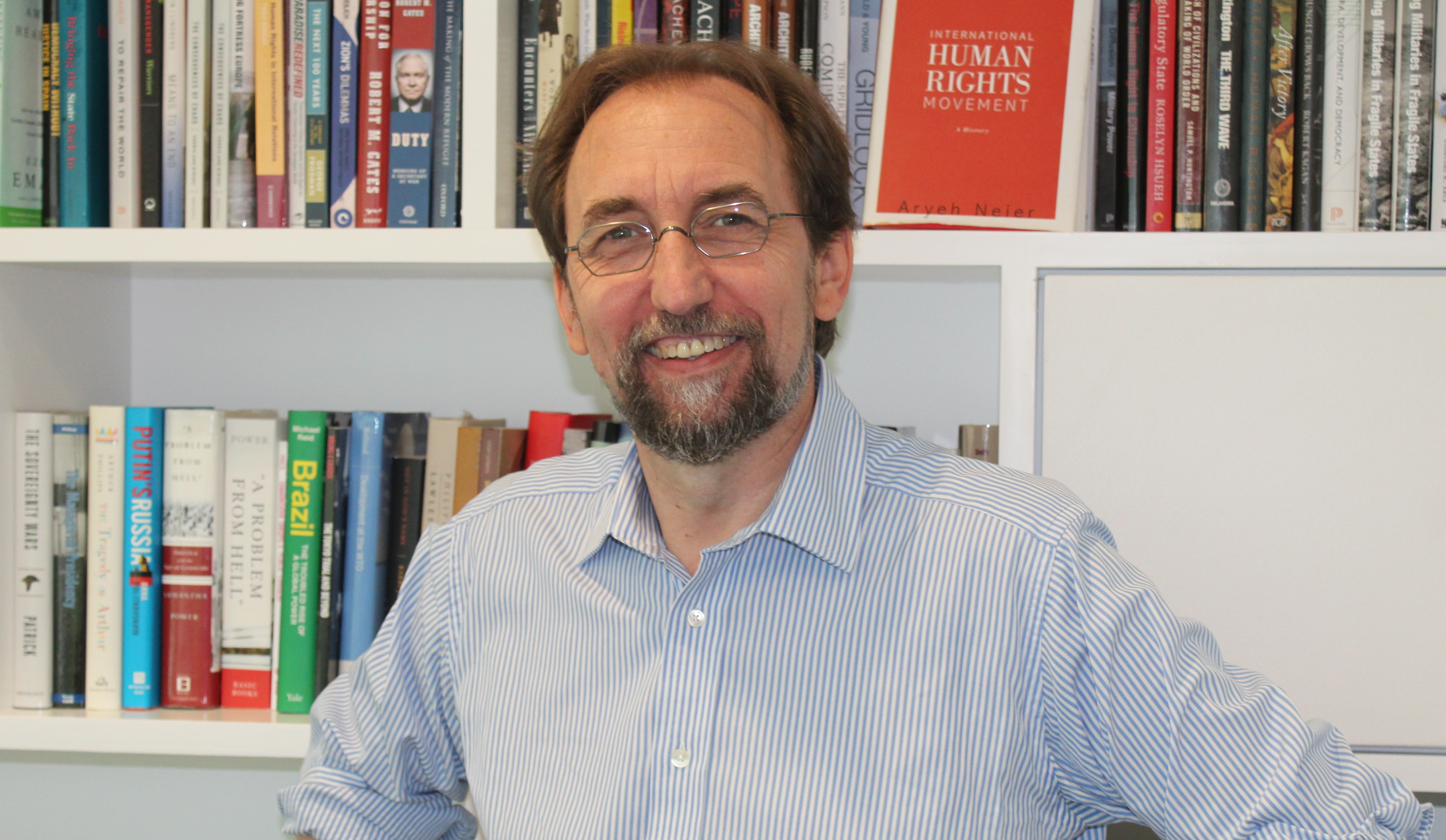 Zeid posing at Perry World House